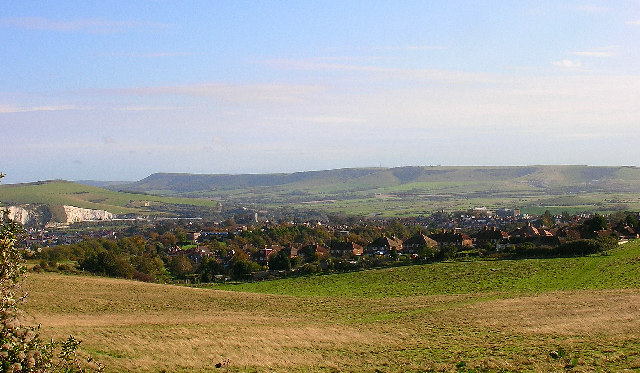 Site of the Battle of Lewes 1264. The battle was fought between Simon de Montfort and Henry III in the field in the foreground with the former being victorious. This stunning view takes in Lewes, Lewes castle, Southerham chalk pits to the left and Beddingham Hill behind it.